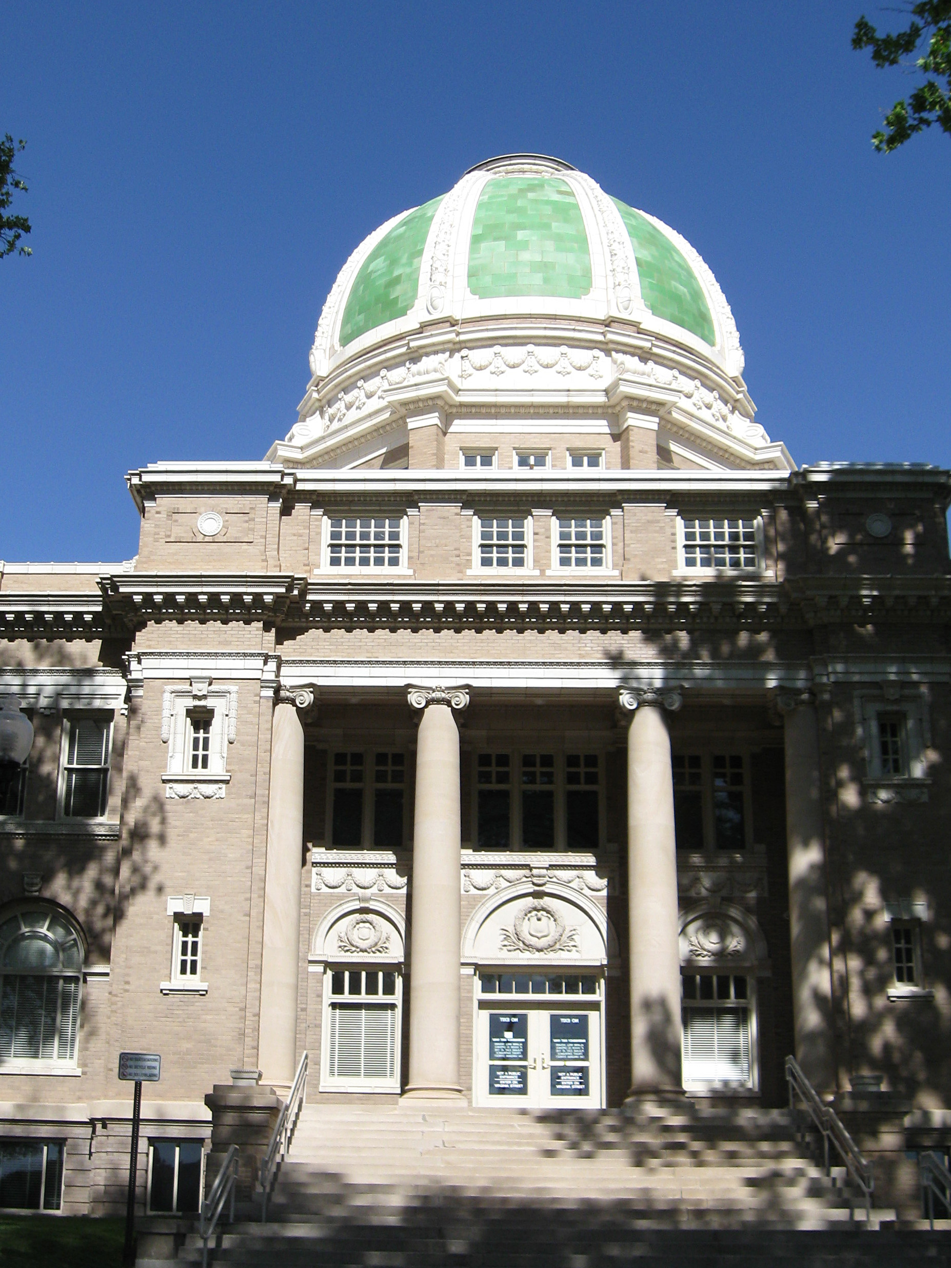 Chaves County (New Mexico) Court House. This is the west entrance, located at 401 N. Main in Roswell, New Mexico.